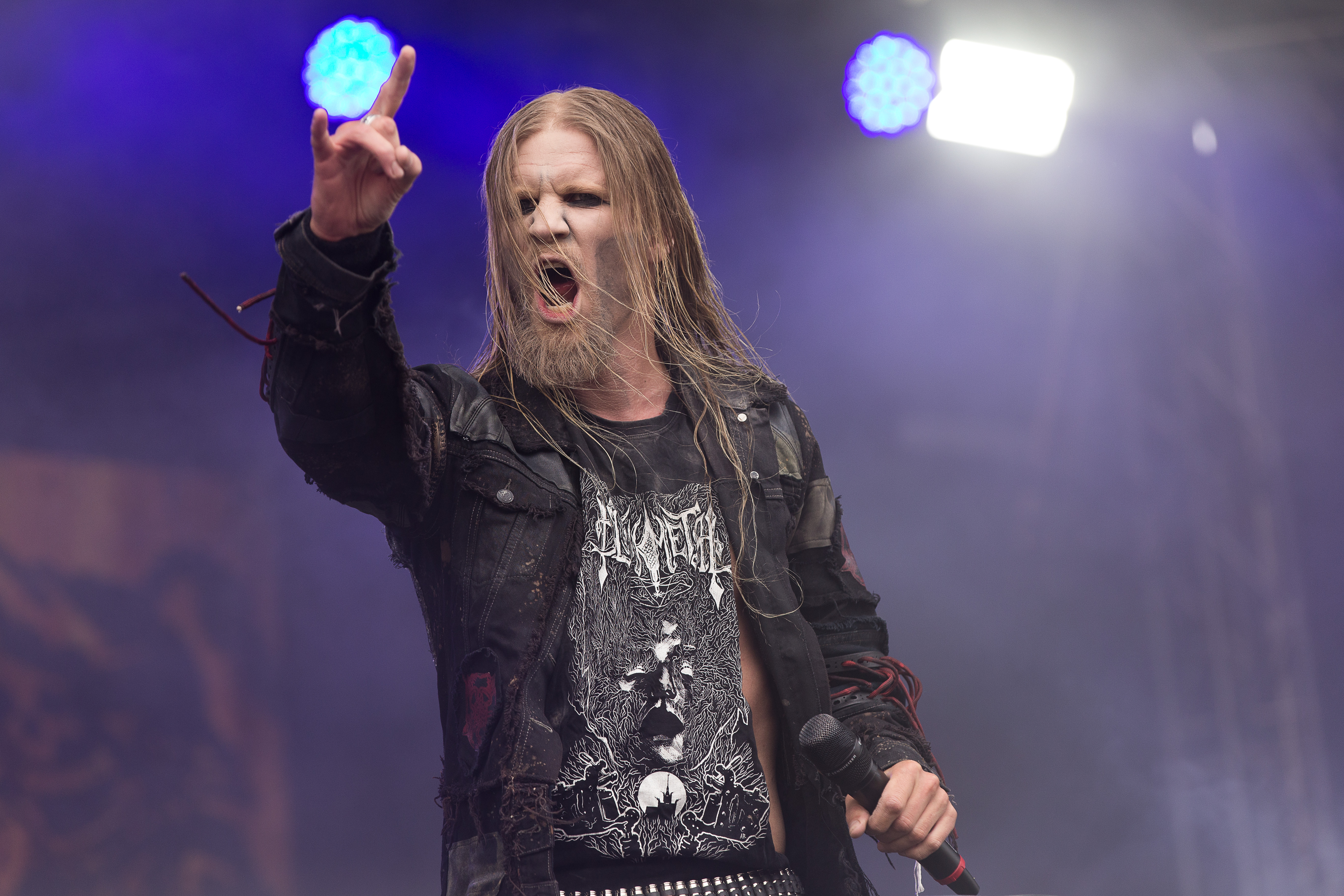 The Norwegian black metal band Kampfar at the Rockharz Open Air 2016 in Ballenstedt/Germany.